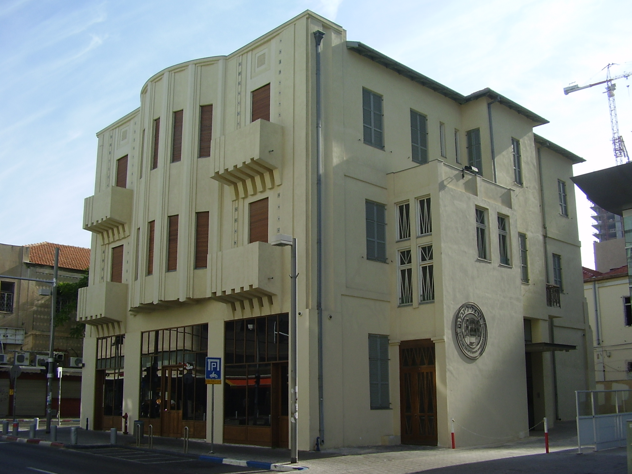 shif house in tel-aviv